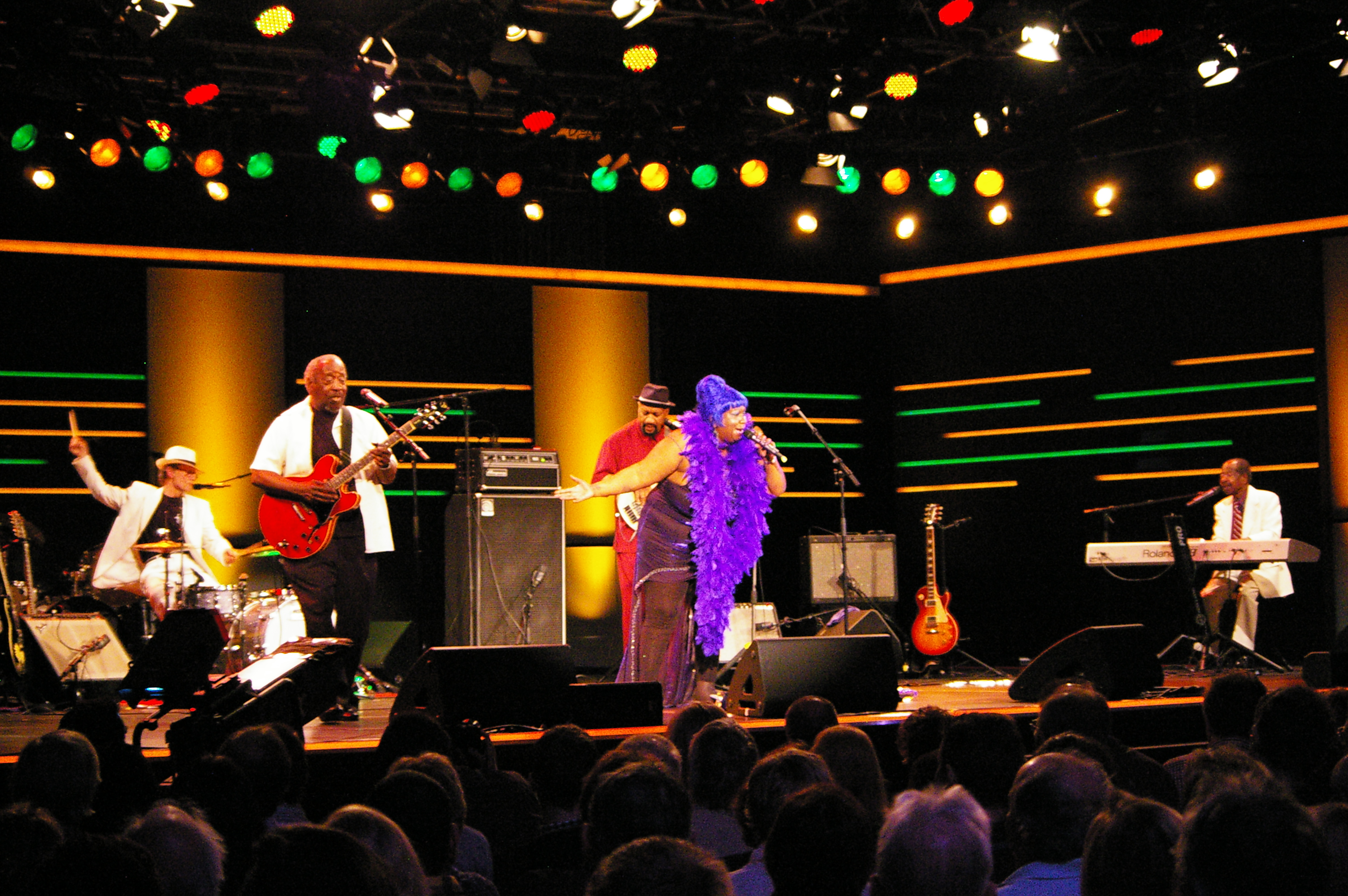 Internationale Jazzwoche Burghausen left to right:Ardie Dean,Albert White, Nashid Abdul,Pat Cohen, Eddie Tigner